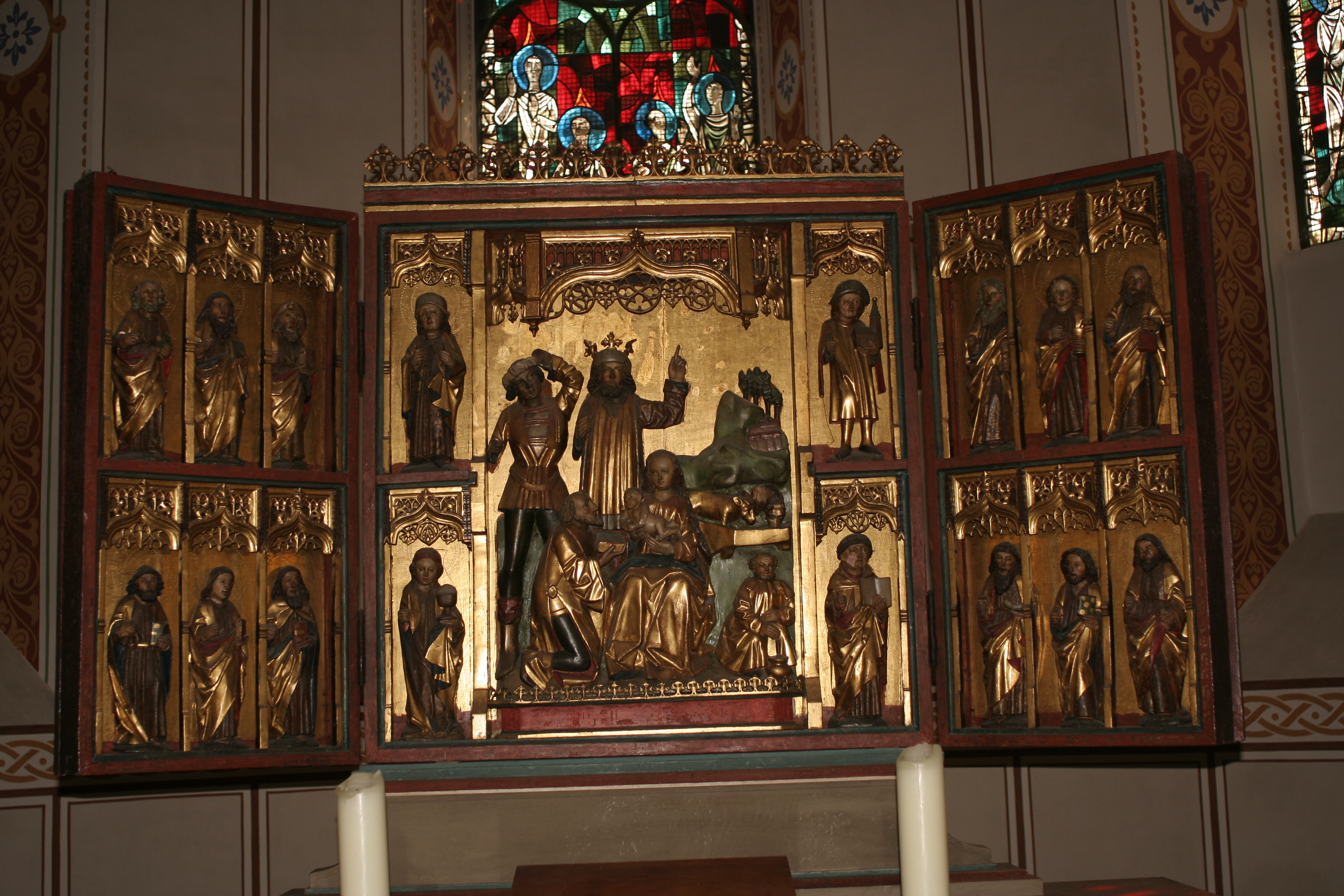 Adoration of the Magi altar, Gandersheim Abbey (Stift Gandersheim), Lower Saxony